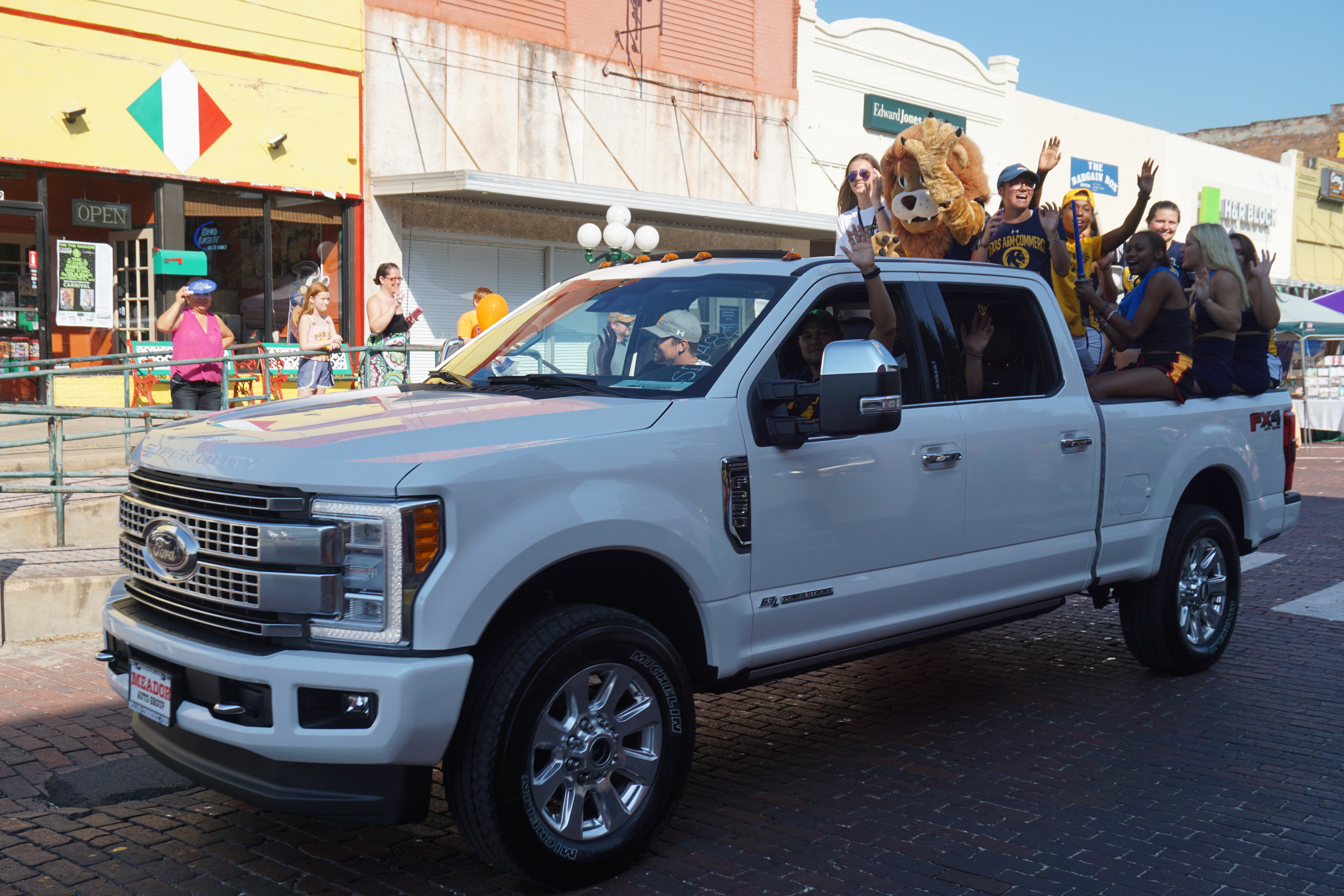 Lucky and A&M–Commerce Lions cheerleaders in the parade at the 32nd Annual Bois d'Arc Bash in Commerce, Texas (United States).